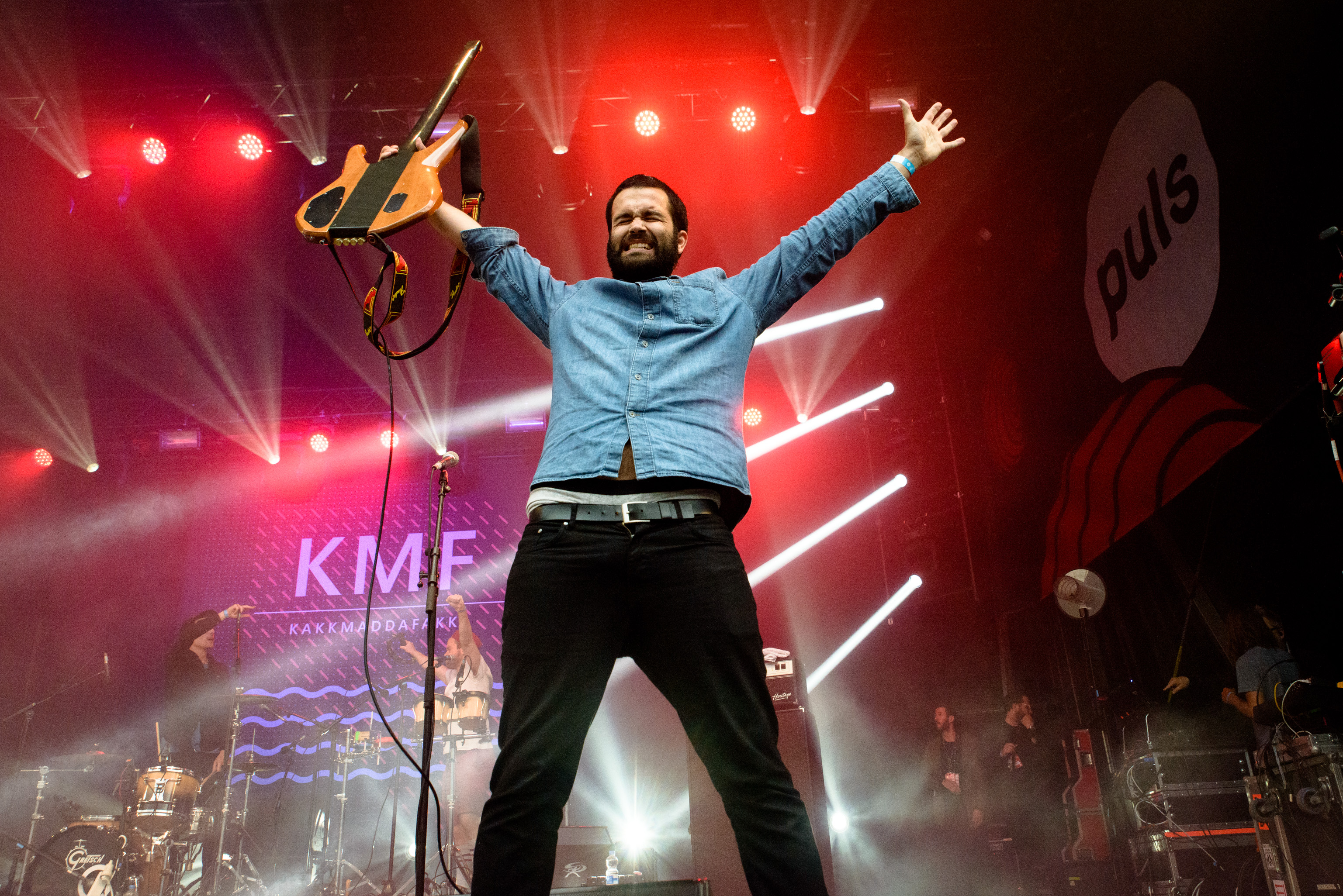 Kakkmaddafakka @ Pulsopenair 2016